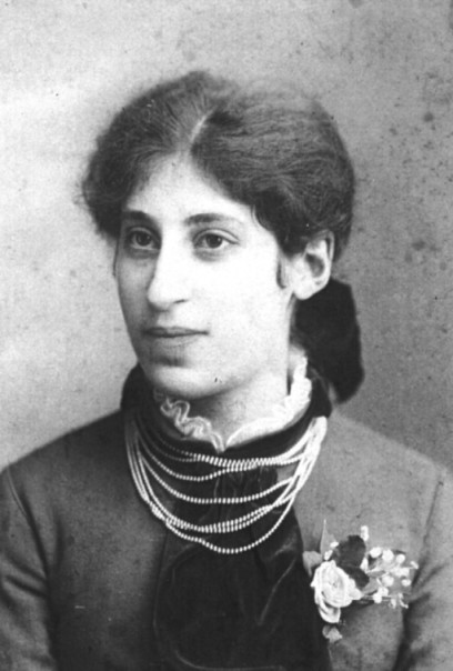 Caroline Henle, wife of Moritz Henle in 1882